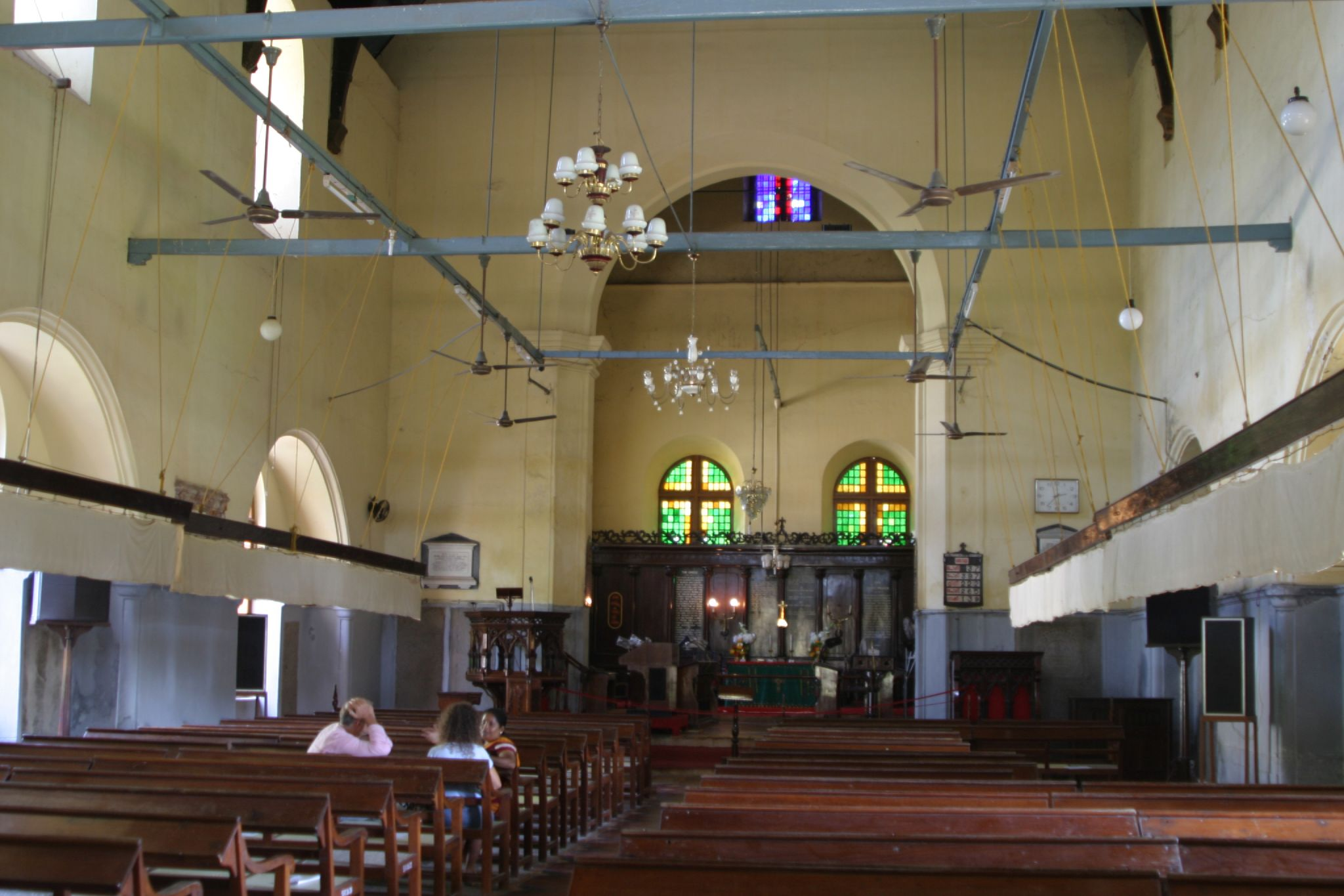 St. Francis Church, the first European Church to be built in India. Burial site of Vasco da Gama. 1503 to 1663 Portuguese, 1664 to 1804 Dutch, 1804 to 1947 British, 1947 onwards Church of South India